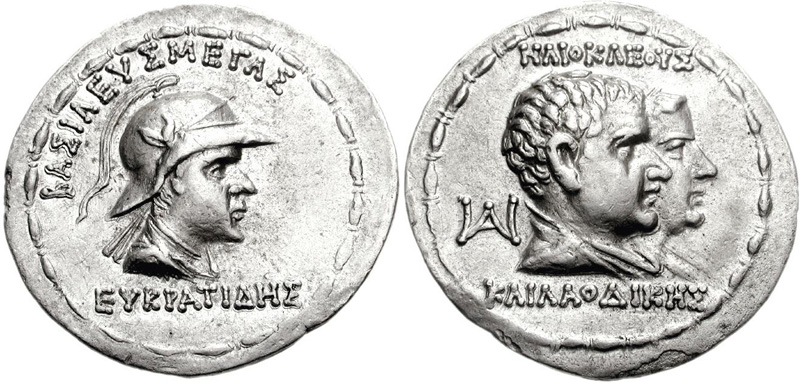 Coin of the Indo-Greek king Eukratides